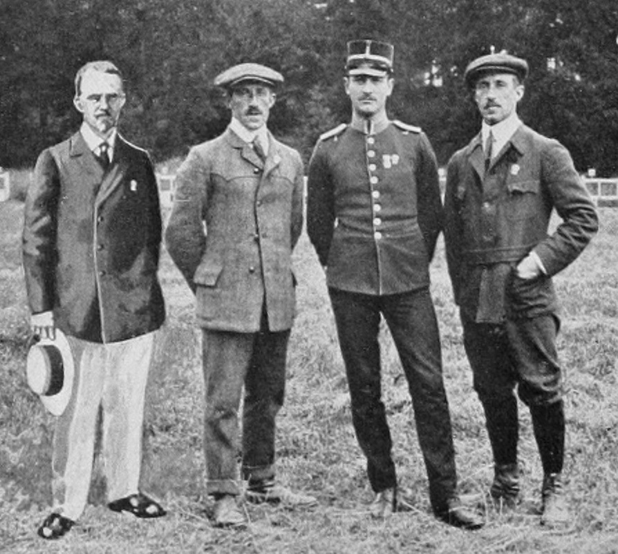 Paul Palén, Vilhelm Carlberg, Johan Hübner von Holst, Eric Carlberg at the 1912 Olympics